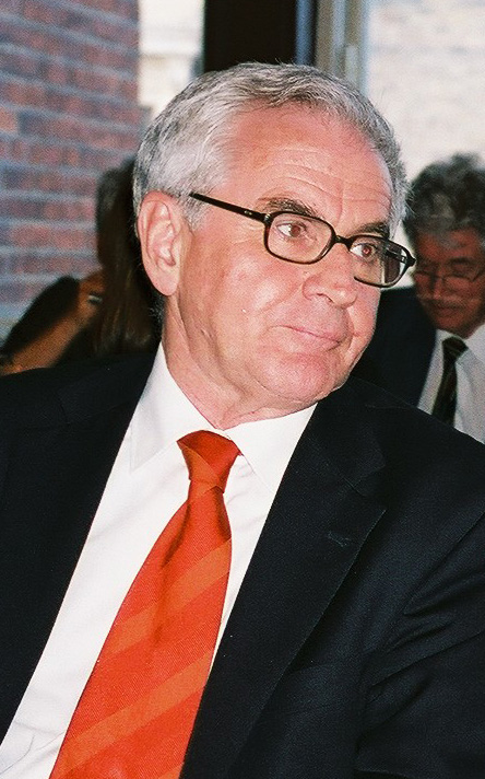 Göran Bexell (born 1943), "Rector Magnificus" (vice chancellor) of Lund University at a dinner party at Akademiska Föreningen (the Academic Society).